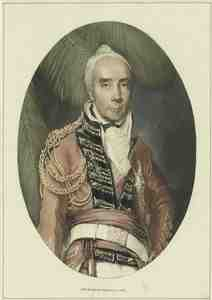 Portrait of Sir George Beckwith Source: old print by artist unknown, circa 1800.